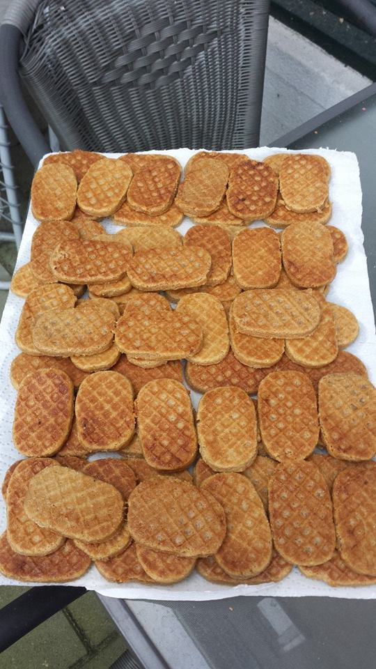 IJzerkoekjes, a special type of cookies